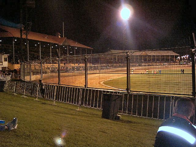 Wayville Showground Main Arena looking north to the Members Stand (left) and public stand (top).